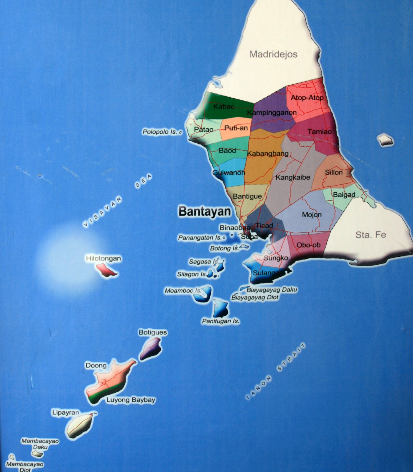 Map of Bantayan Island showing islands, and with Bantayan, Cebu showing barangays